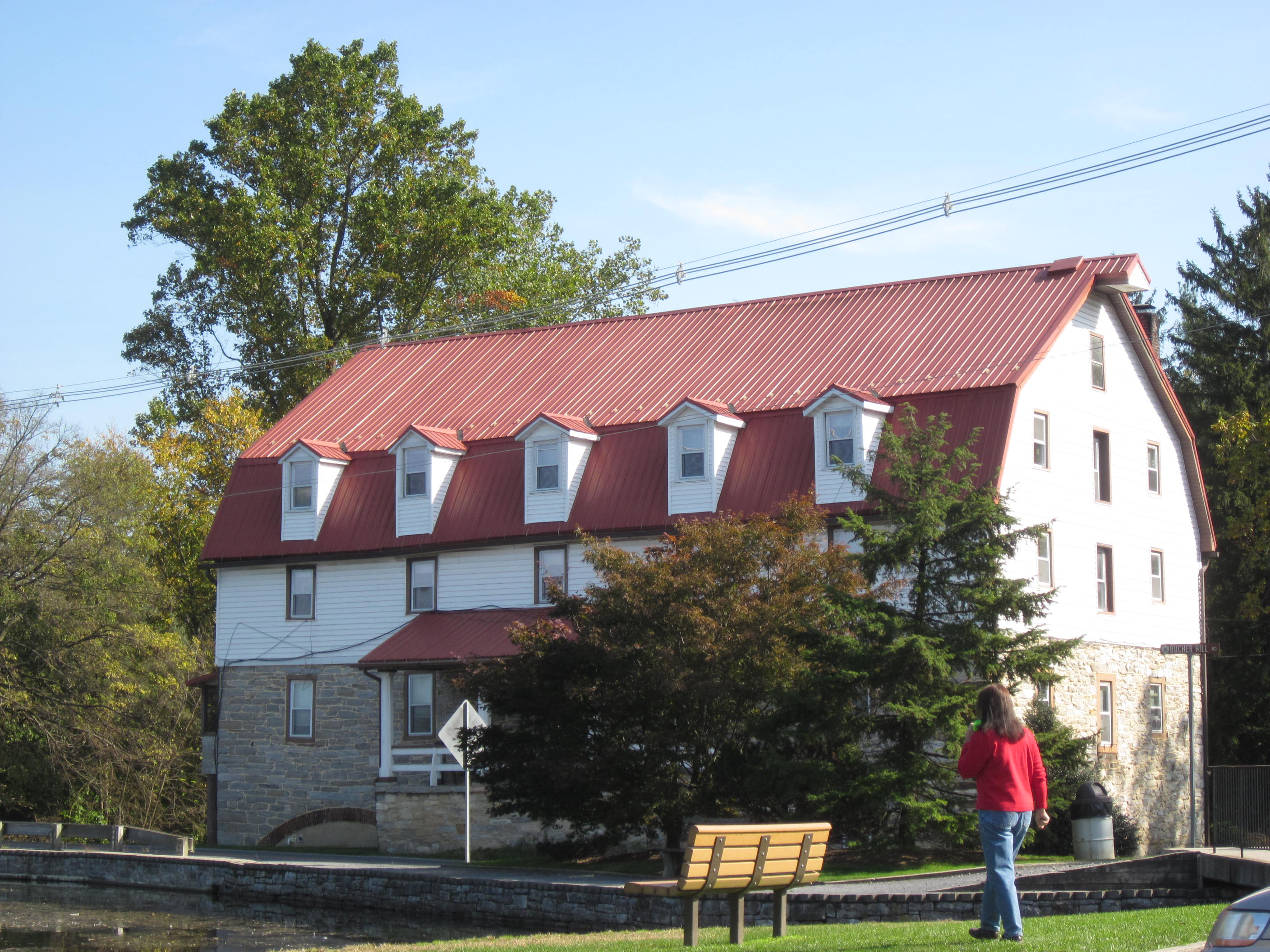 A grist mill was built by Michael Ege about 1784 to provide flour and grain for the iron works. The large 36'X 65', 4.5 story mill has been renovated into apartments and condominiums.